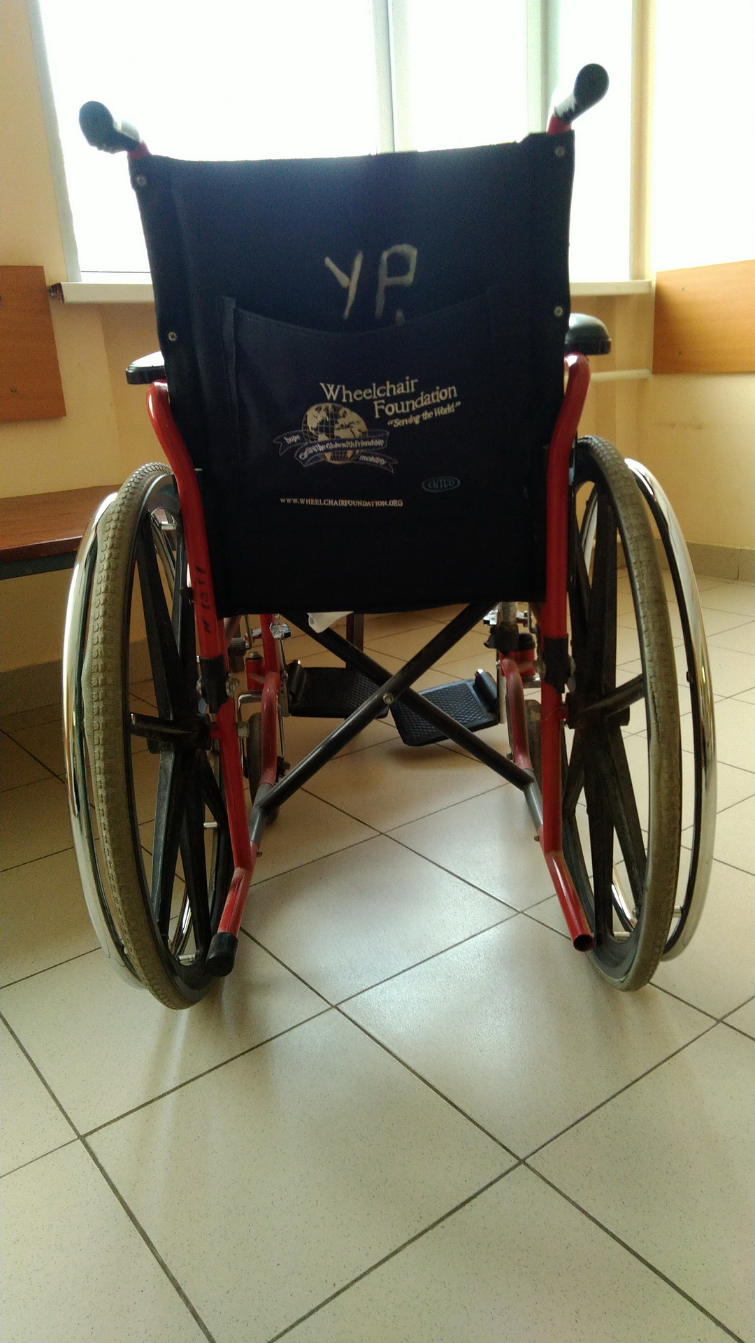 Wheelchair with backside labeled by "Wheelchair Foundation". Moscow Oblast's hospital, Russia.